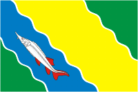 Flag of Eiski Raion, Krasnodar Krai, Russia.